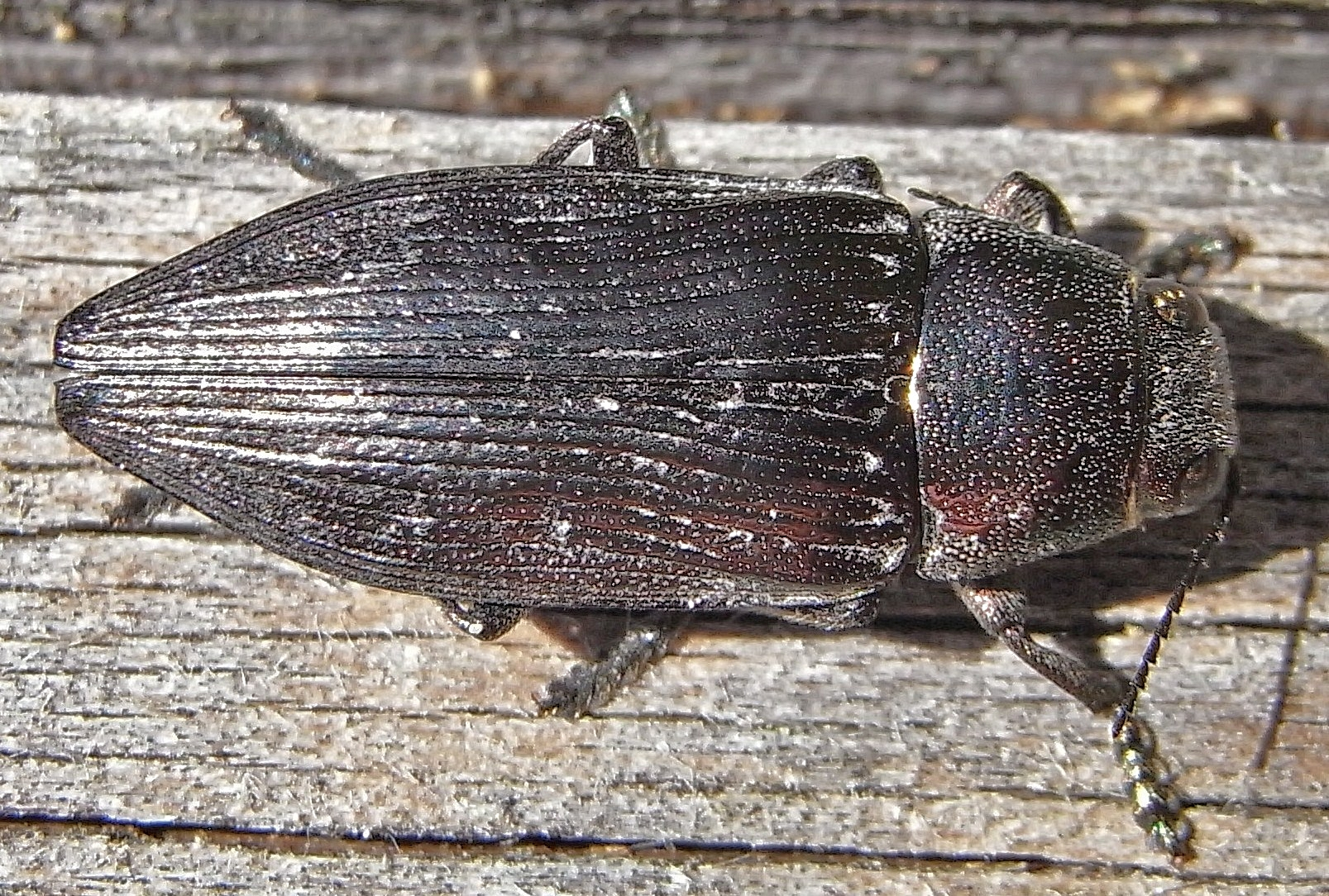 Buprestis haemorrhoidalis from Hungary, Vertes-mountains at 2010-07-08Ricoh R8